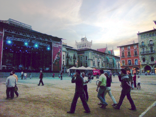 Vic's Main Square during MMVV preparations